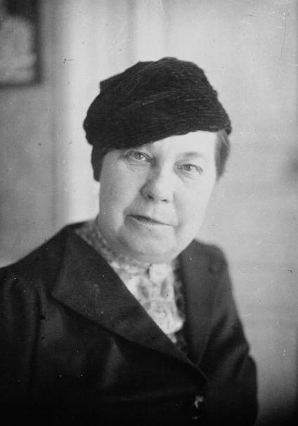 Marguerite Appell (1883-1969), named Camille Marbo in literature, was a French writer.